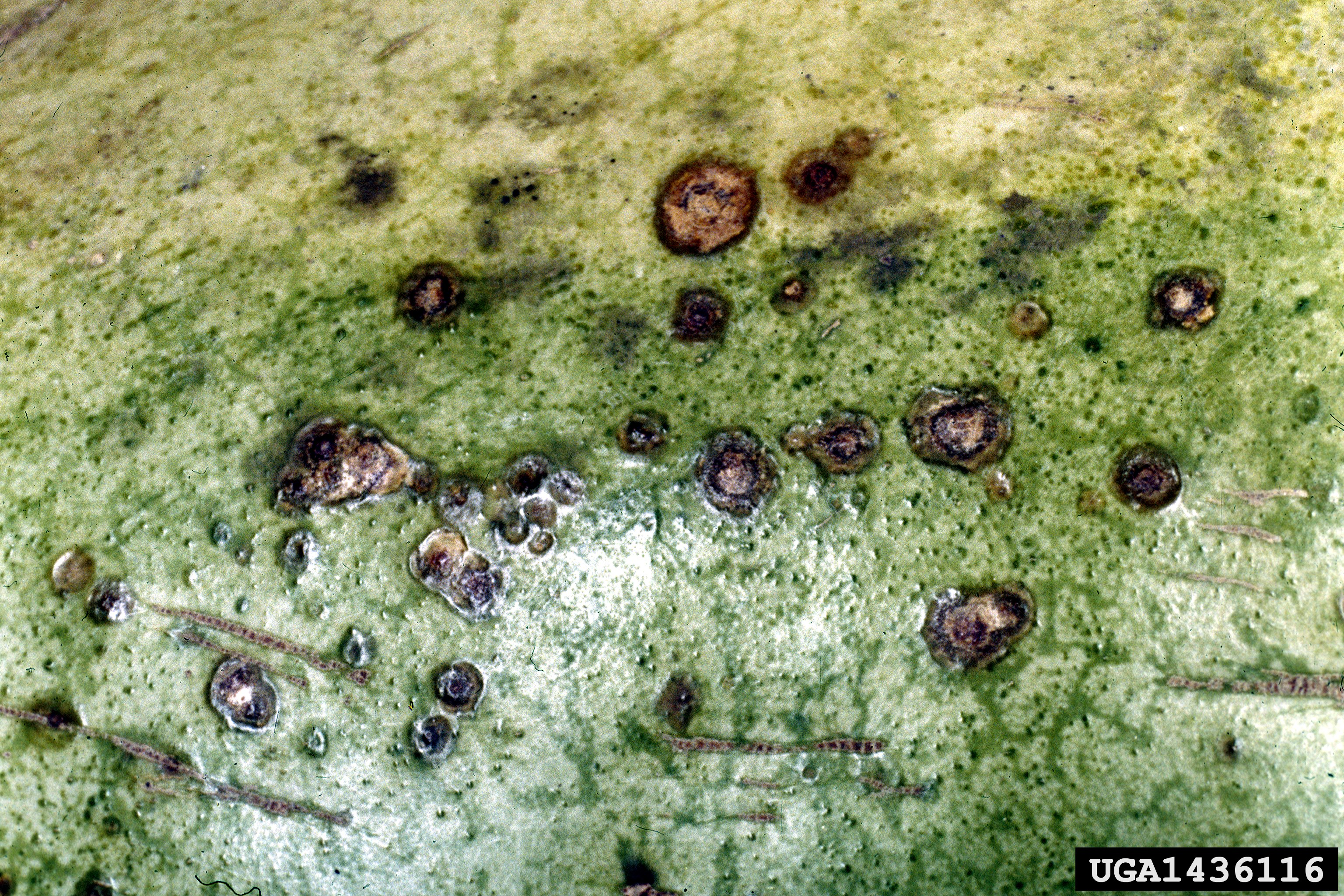 Symptoms of the plant pathogen Didymella bryoniae on watermelon